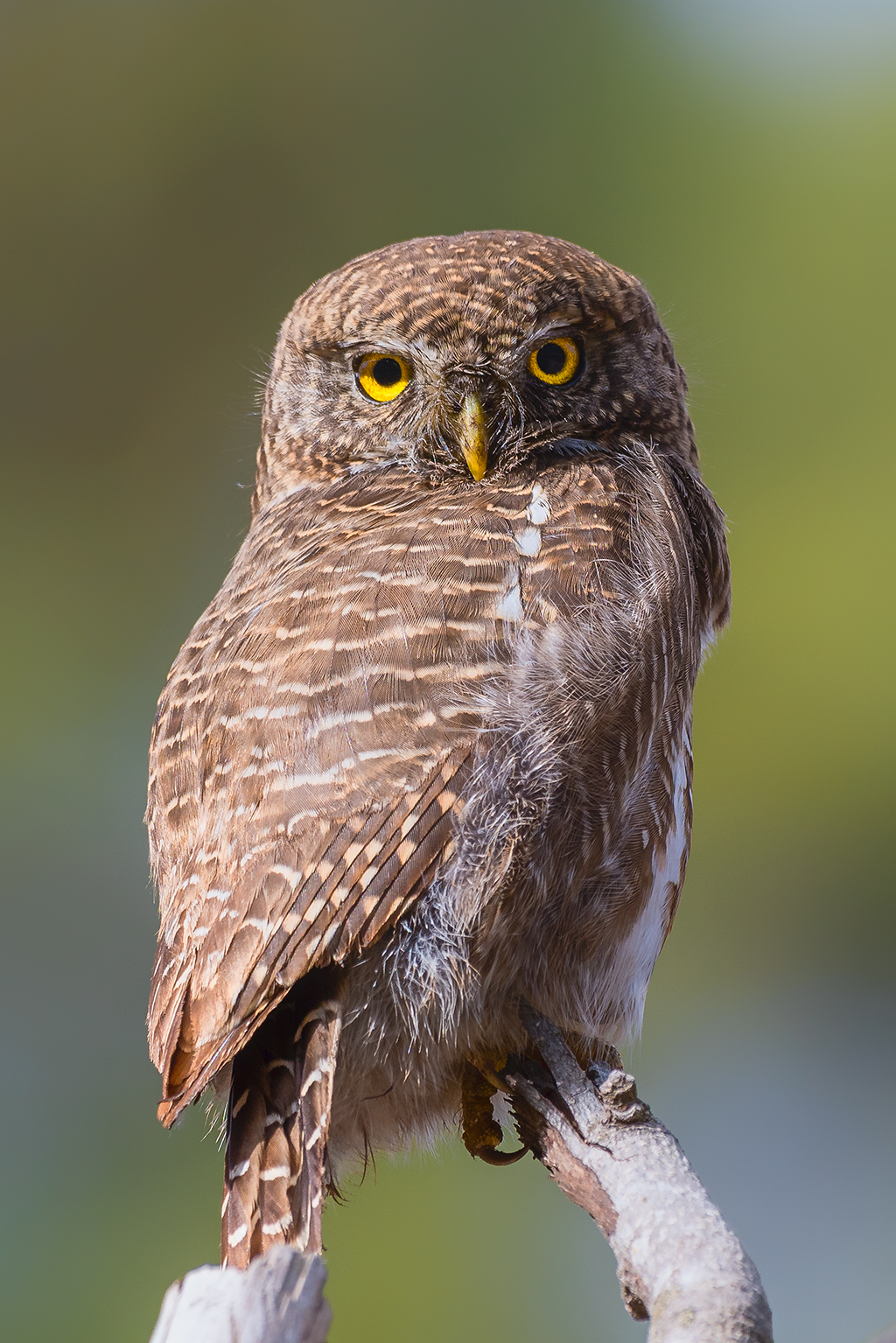 Asian barred owlet, from Sattal, Uttarakhand, India; Photographer: Prasanna Kumar Mamidala